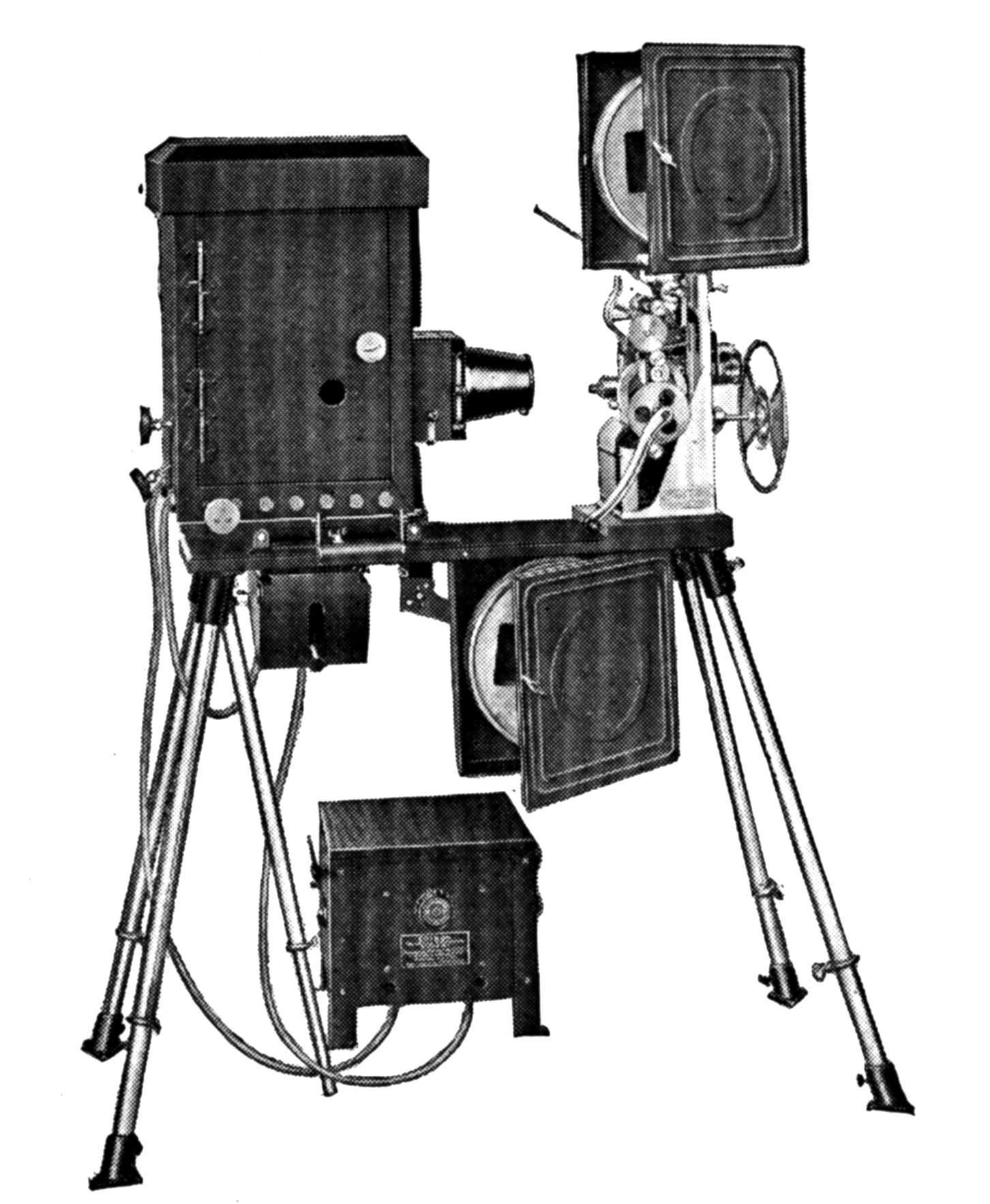 caption: "Fig. 221. Edison Kinetoscope, Provided with Two-Wing Outside Shutter."